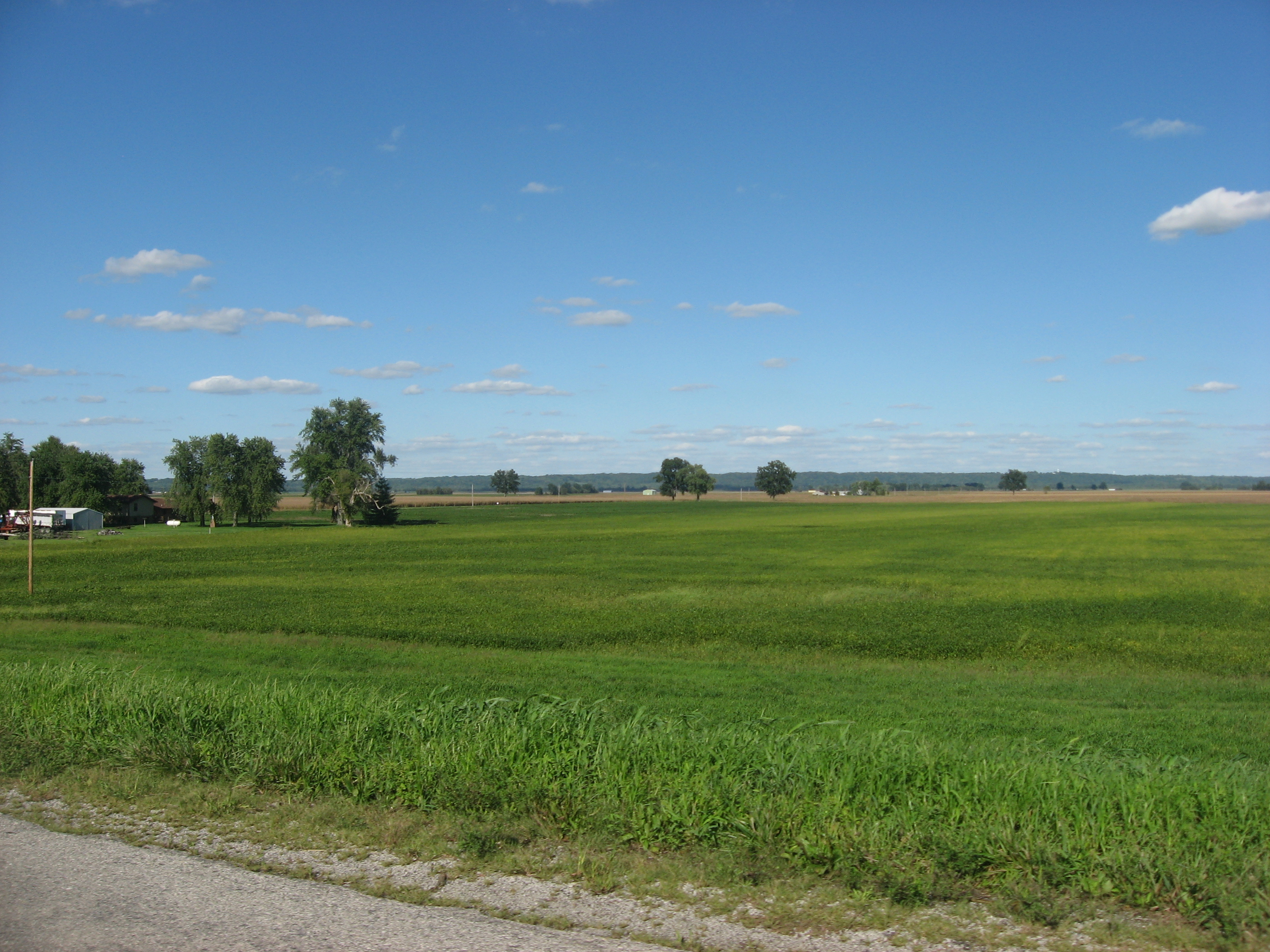 Looking eastward across the fields in Kaskaskia Precinct, Randolph County, Illinois, United States. Picture is taken from the old Kings Highway on the precinct's western edge.